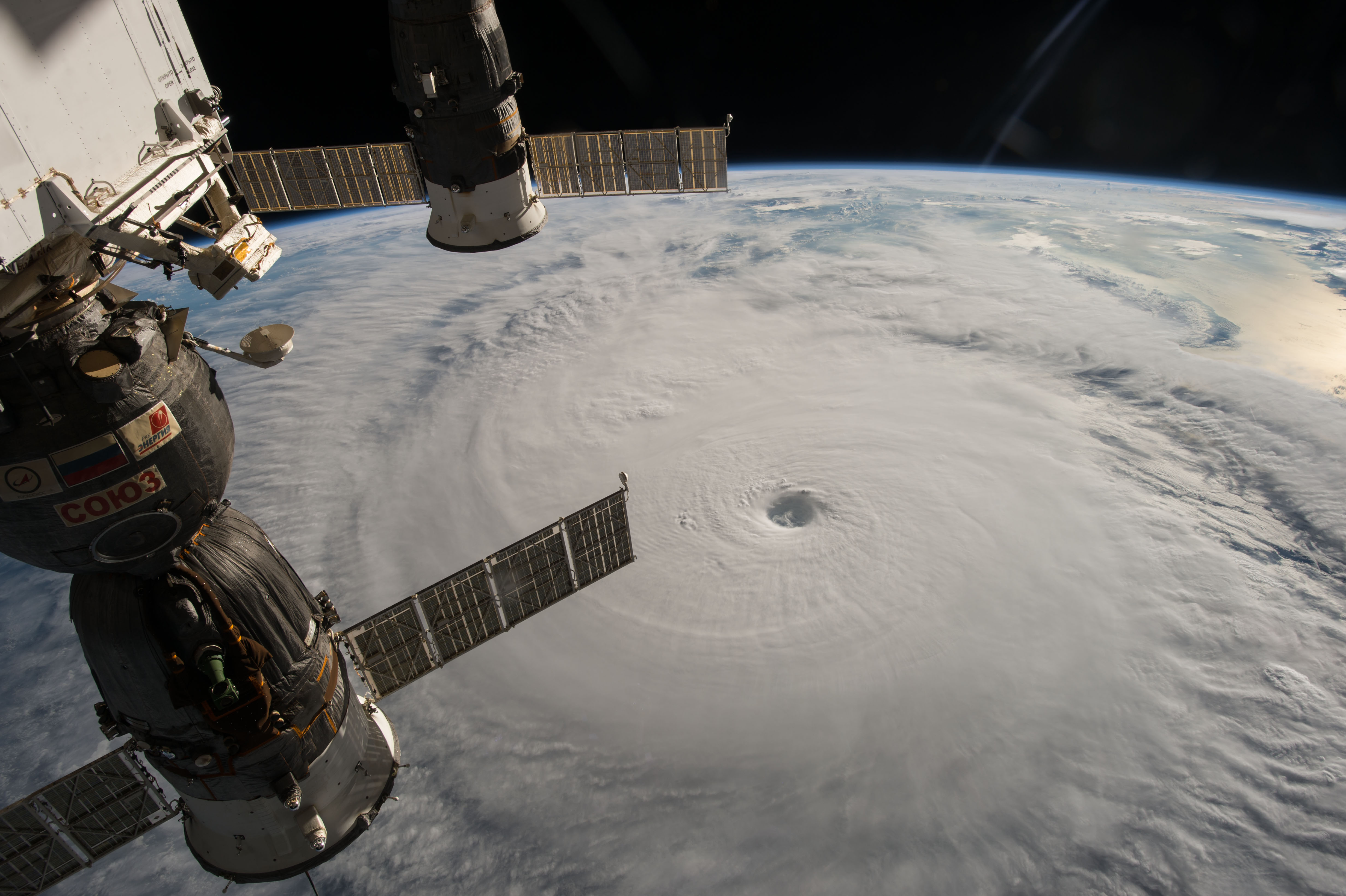 Typhoon Chaba seen on the International Space Station (ISS).